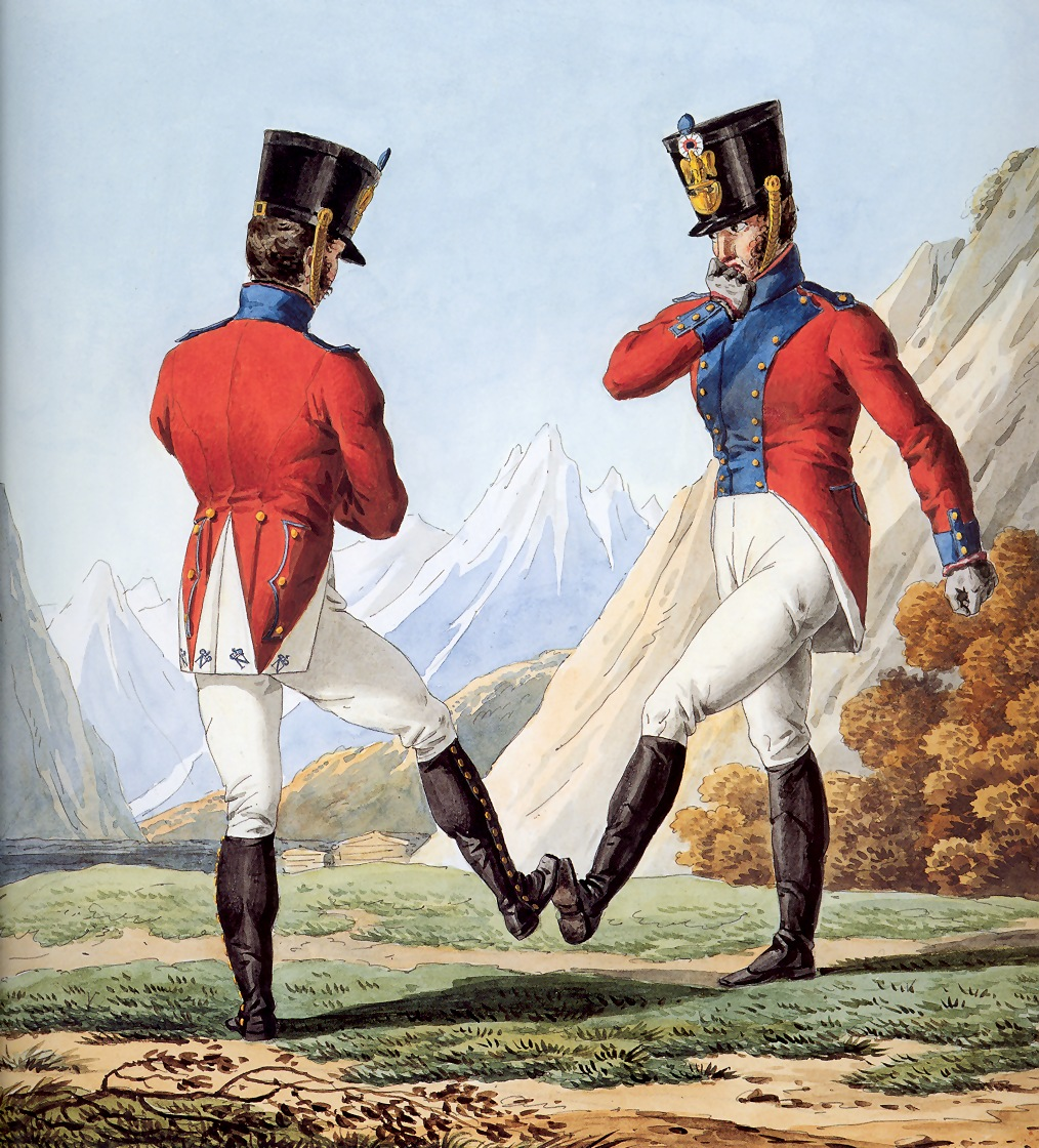 Part of a series chronicling the uniforms of Napoleon's Grande Armée.